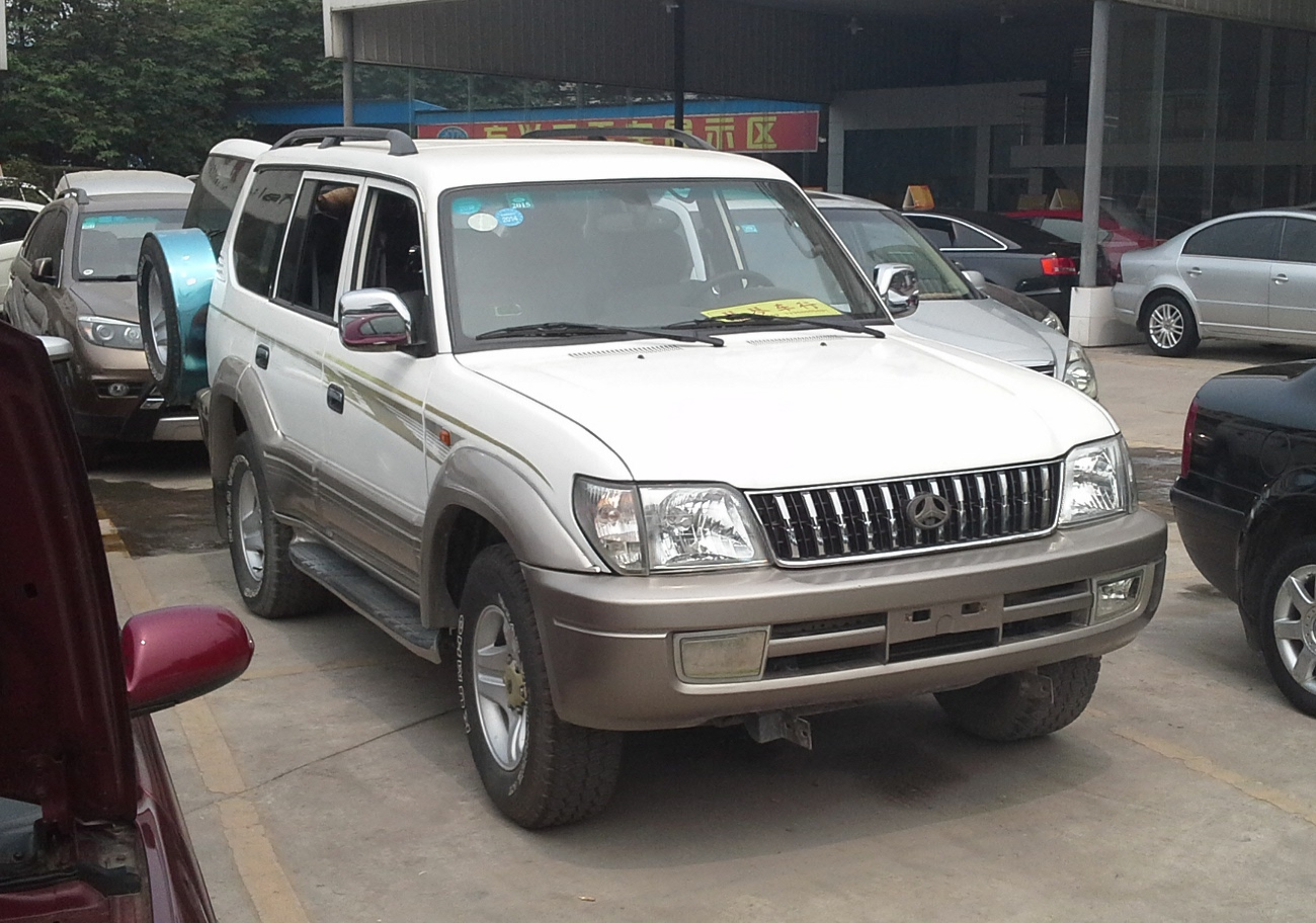 BAW Luba photographed in Chongqing, China.